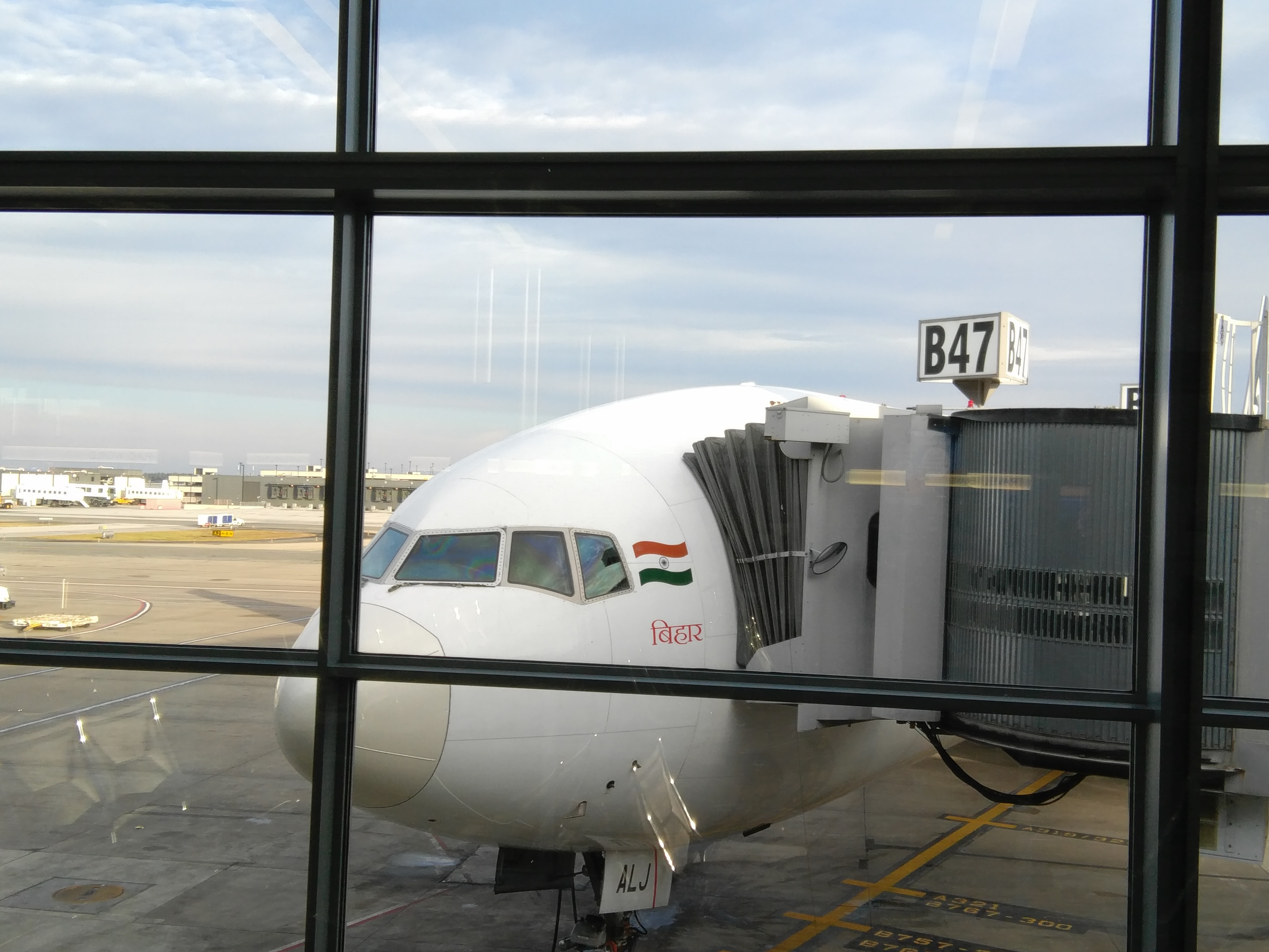 Air India Boeing 777 aircraft connected to the Jet Bridge at Dulles Airport. Do note the naming of the Aircraft by the states of India..in this case Bihar